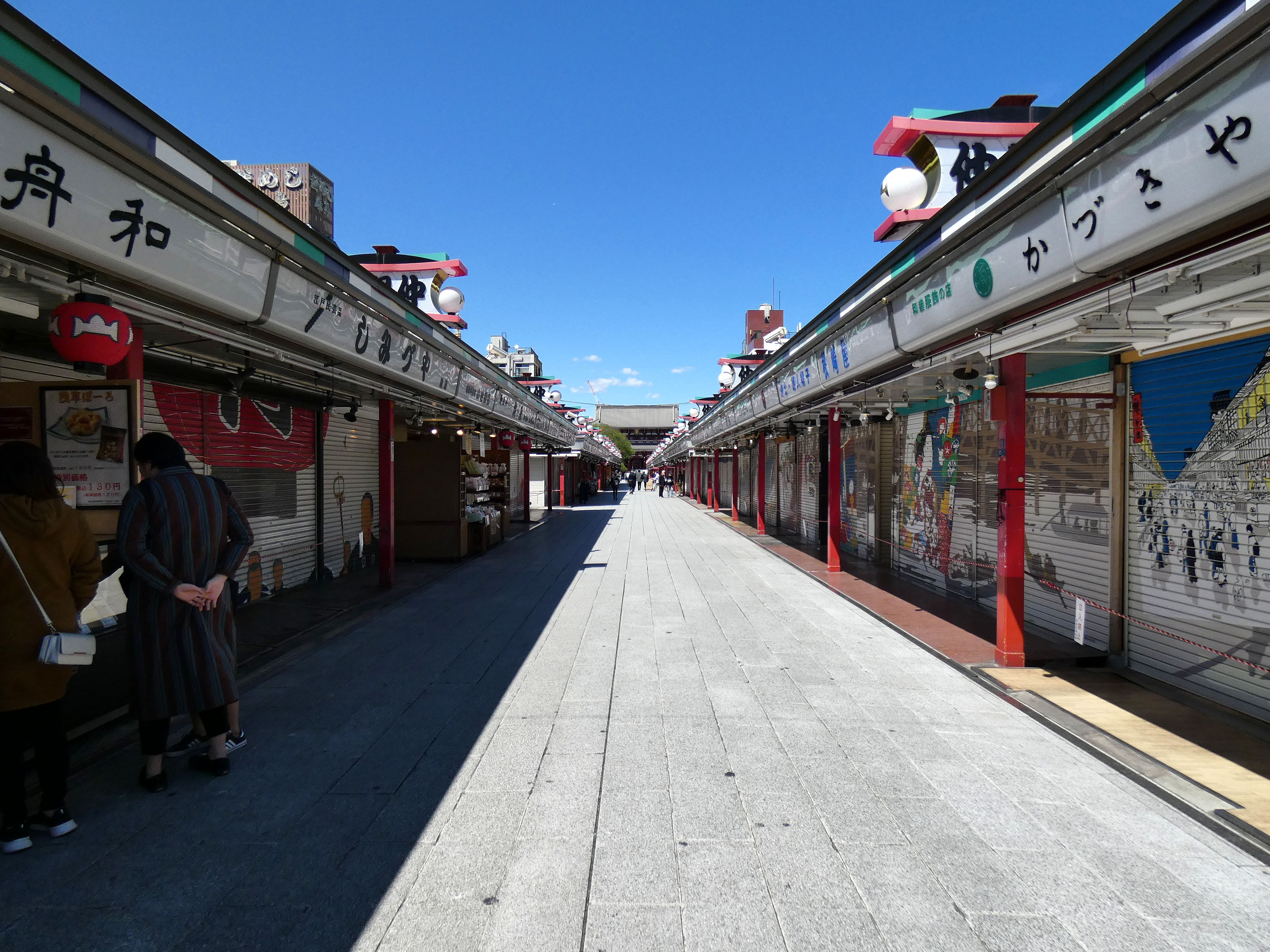 Nakamise street (Tokyo, Japan) under the state of emergency for coronavirus pandemic